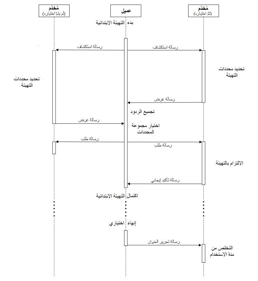 The sequence diagram for configuring and allocating a new address for a DHCP client.